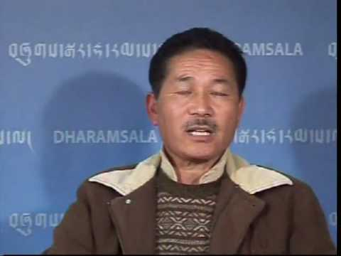 Thupten Lungrik.